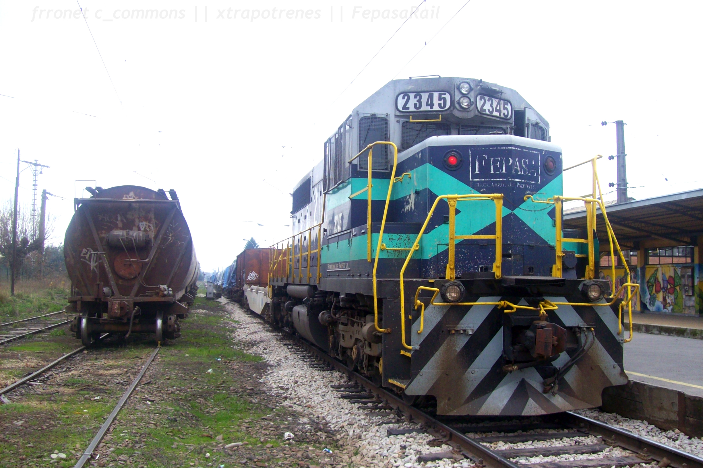 Ferrocarril del Pacífico (FEPASA) #2345, an EMD SDL39, pulls a freight through Lautaro.